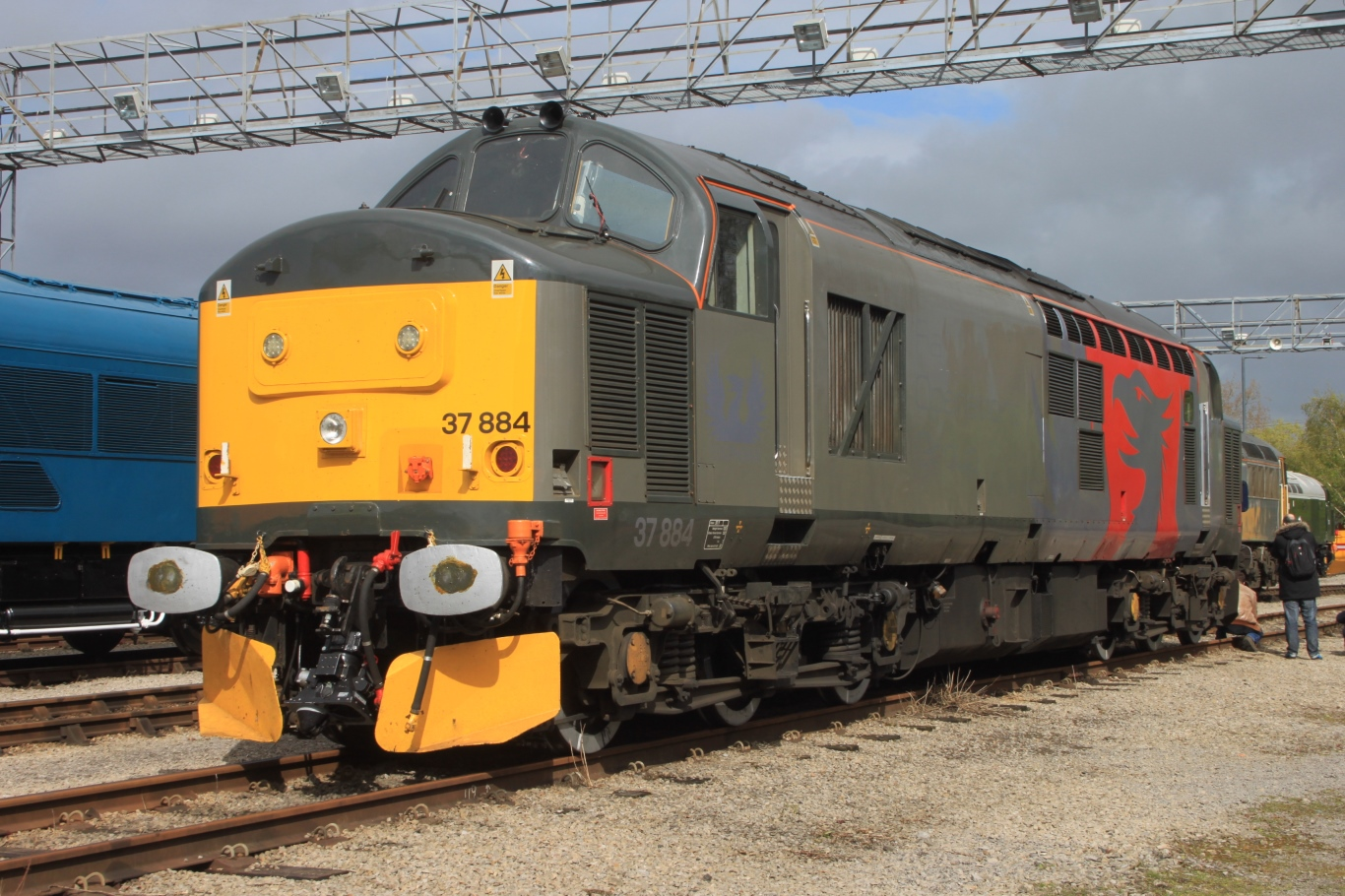 Europhoenix class 37 diesel 37884, which has modified coupling arrangements to allow it to couple directly to electric multiple unit vehicles so that they can be hauled over non-electrified tracks. It is seen on display at St Philip's Marsh in Bristol during a depot open day.